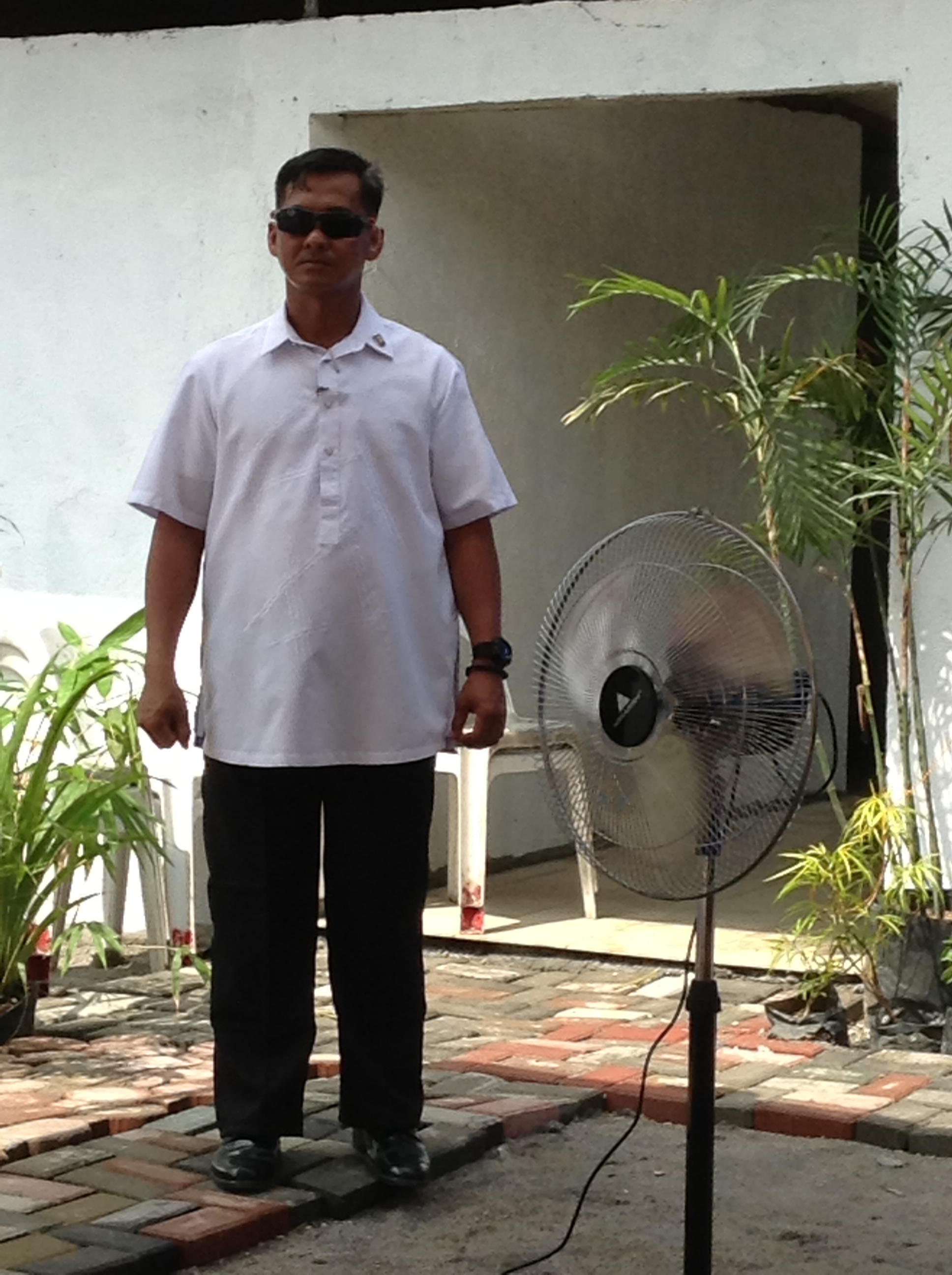 A Presidential Security Group agent in barong tagalog during a VIP protection operation at Gawad Kalinga's Enchanted Farm in Angat, Bulacan when Vice President Jejomary Binay paid a visit.